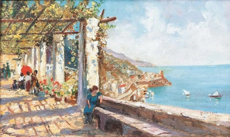 Flower Pergola on Capri by Raffaele Armando Califano-Mundo, 1922, oil on canvas, 22 x 38 cm. (8.7 x 15 in.)